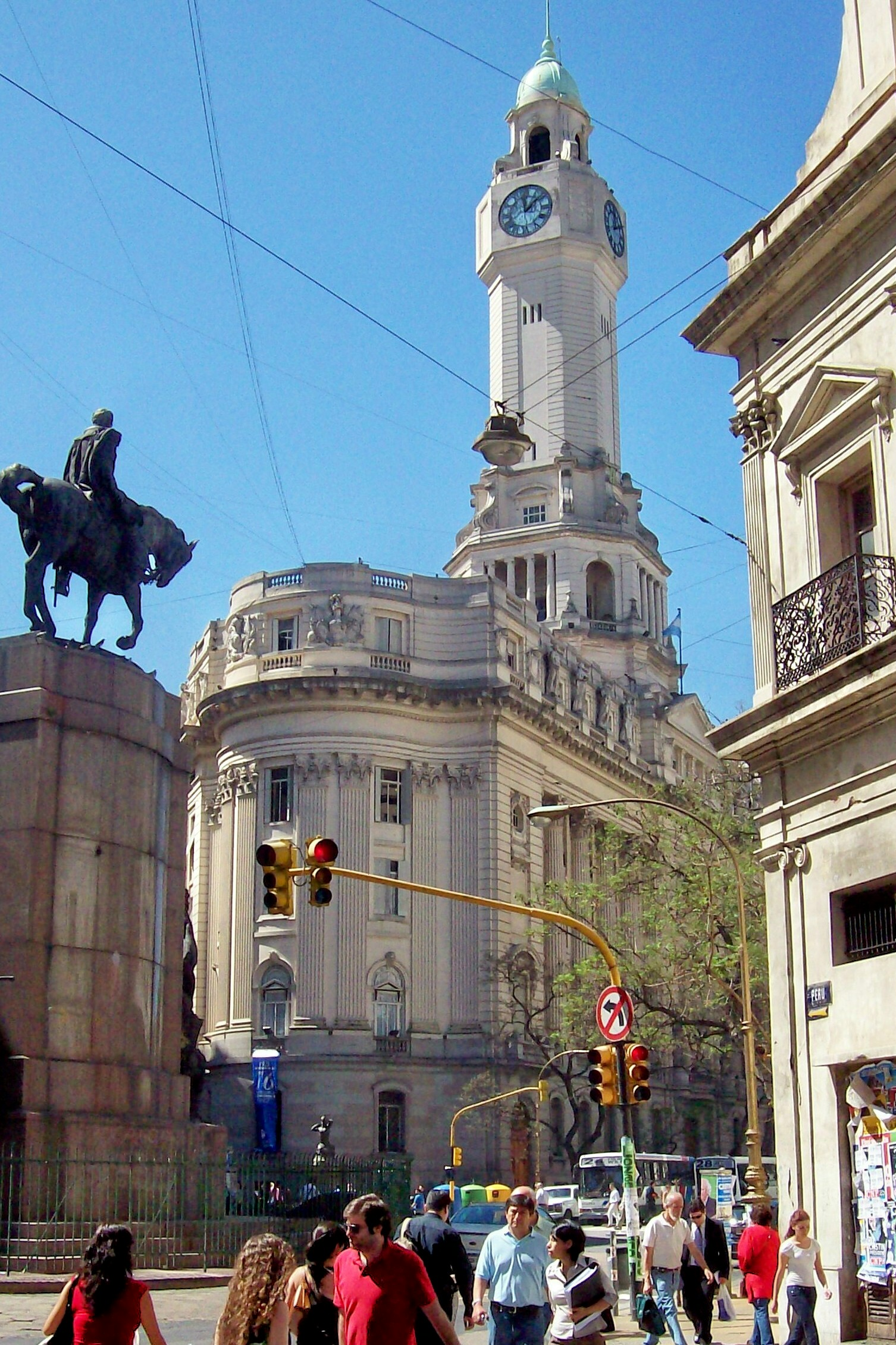 Legislative Palace of Buenos Aires, Barrio de Monserrat, next Plaza de Mayo. View from Perú street